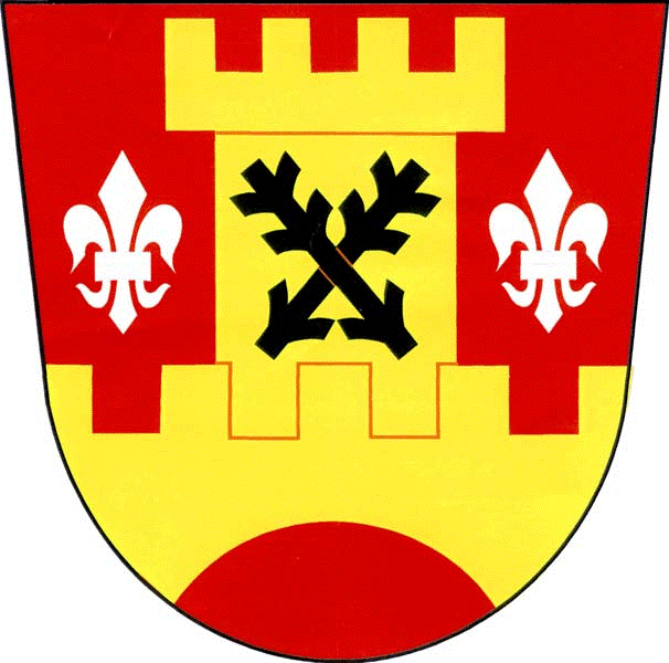 Coat of arms of Červená Hora (city in Czechia)